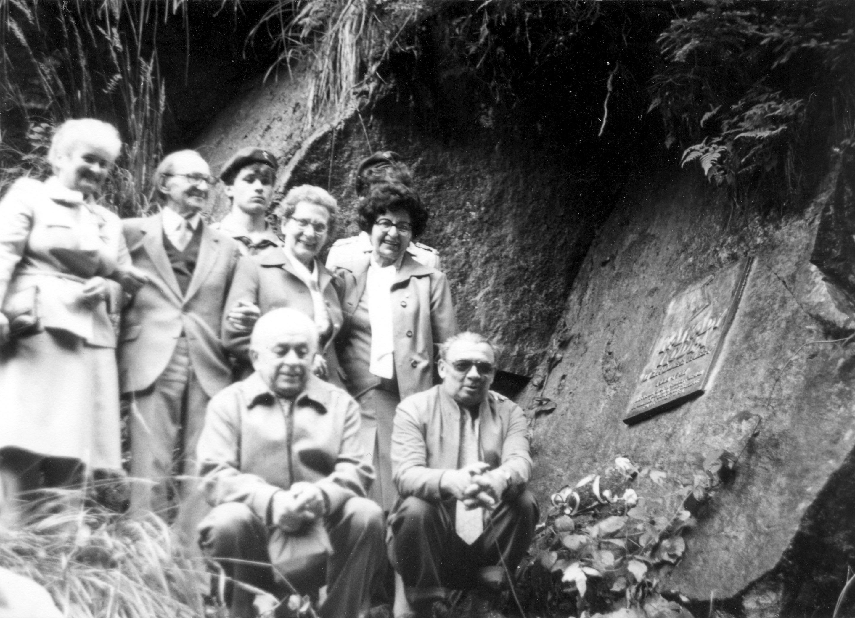 Members of the former Union of Poles in Germany during the naming of Rodło cascades of Biała Wielka, Gmina Lelów in southern Poland.